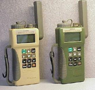 Two Precision Lightweight GPS Receivers (PLGR), each showing a different color scheme.